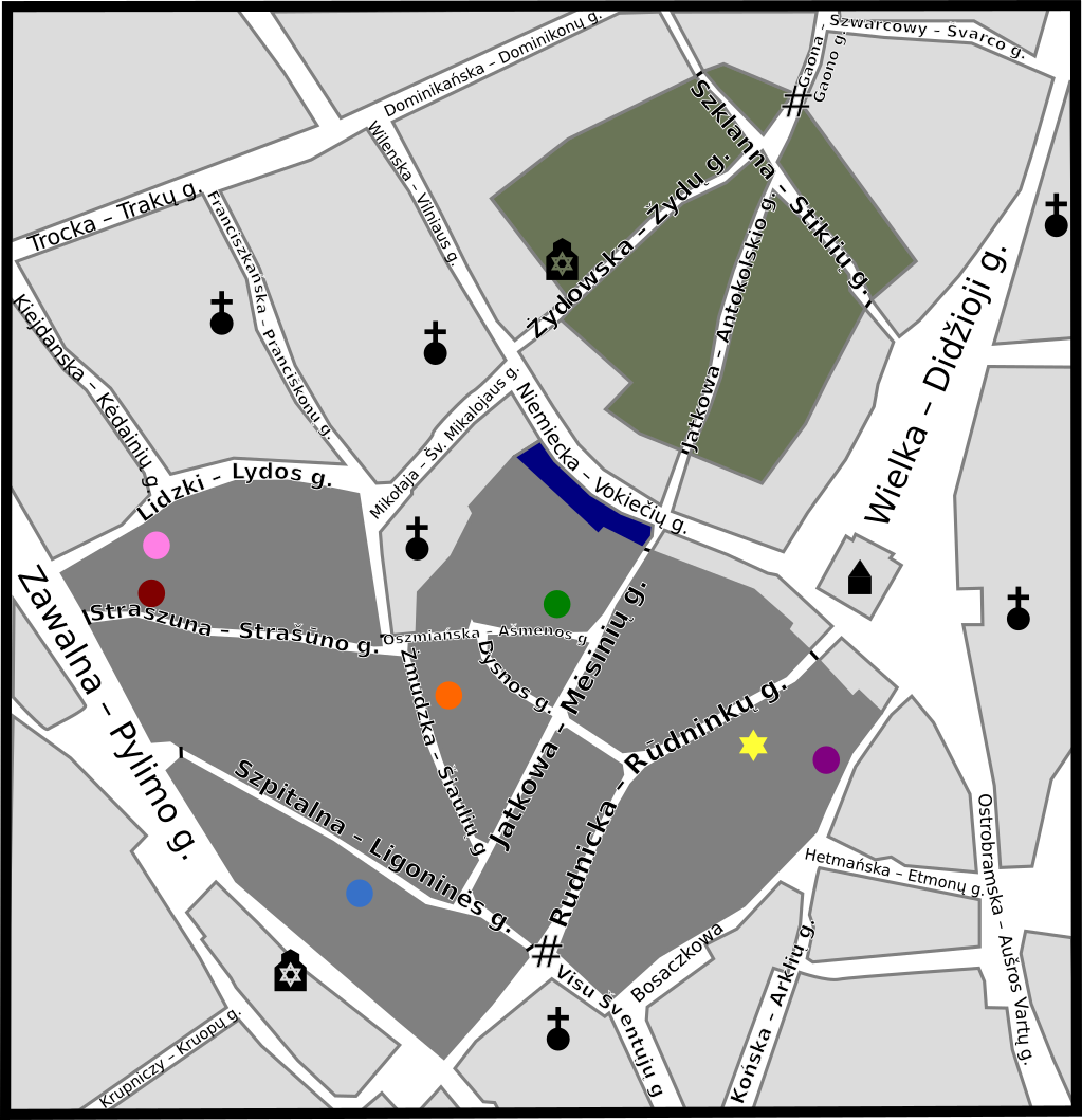 Map of Vilna Ghetto (png). Legend: Olive green area = small ghetto (liquidated in October 1941) Darker gray are = larger ghetto (liquidated in September 1943) Blue area = enlargement of the ghetto in September 1942 Yellow Star of David = Judenrat building Black # sign = ghetto gates Dot with a cross = Christian church House with a Star of David = Synagogue House symbol = Town Hall Points of interest inside the larger ghetto: Blue dot = Jewish hospital Purple dot = Ghetto theater Dark red dot = Ghetto library Pink dot = Ghetto prison Green dot = headquarters of FPO, Jewish resistance organization Orange dot = the larger of the two yeshivas in the ghetto and Torah center